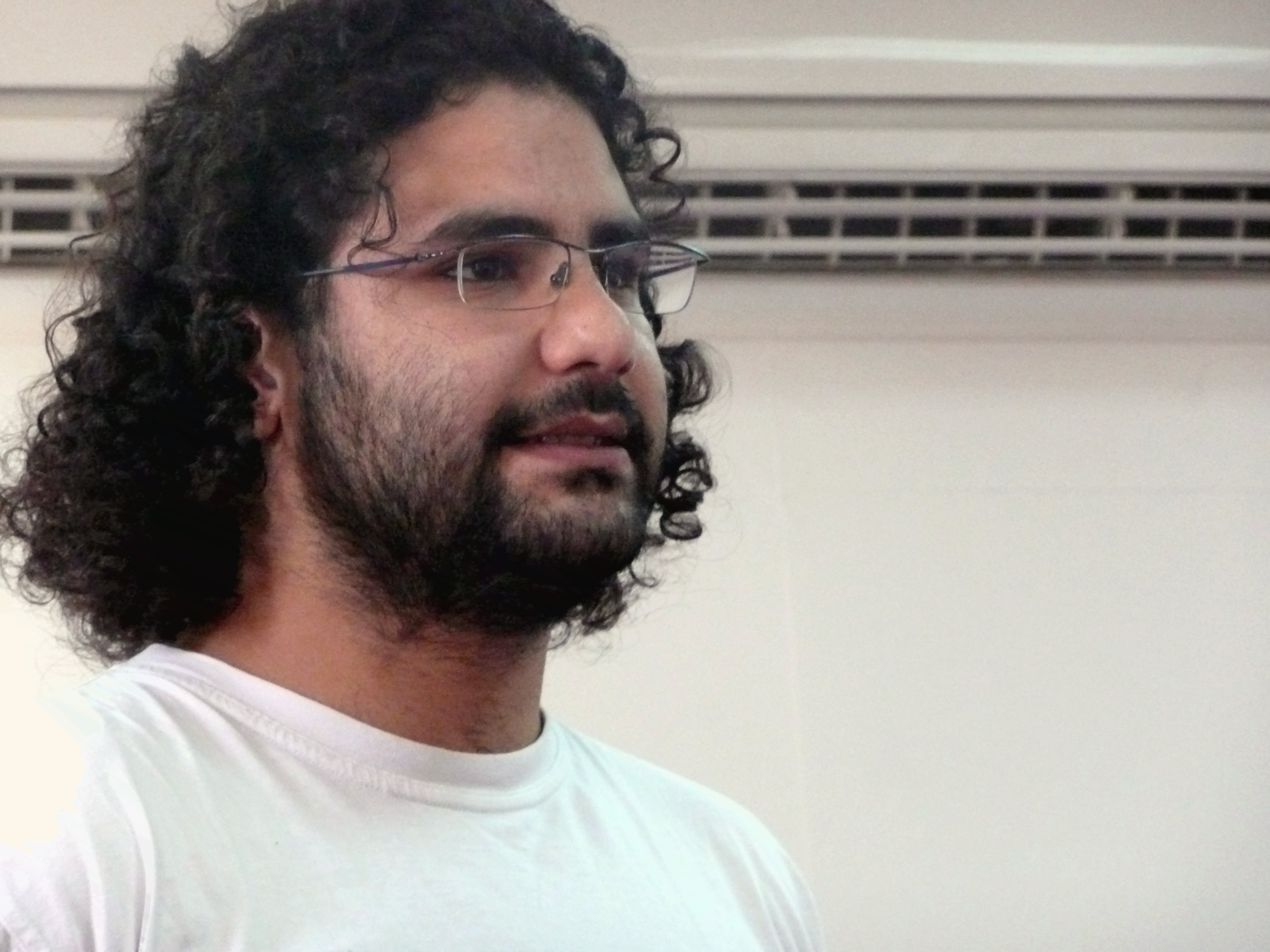 Profile photo of "Alaa Abd El-Fatah"